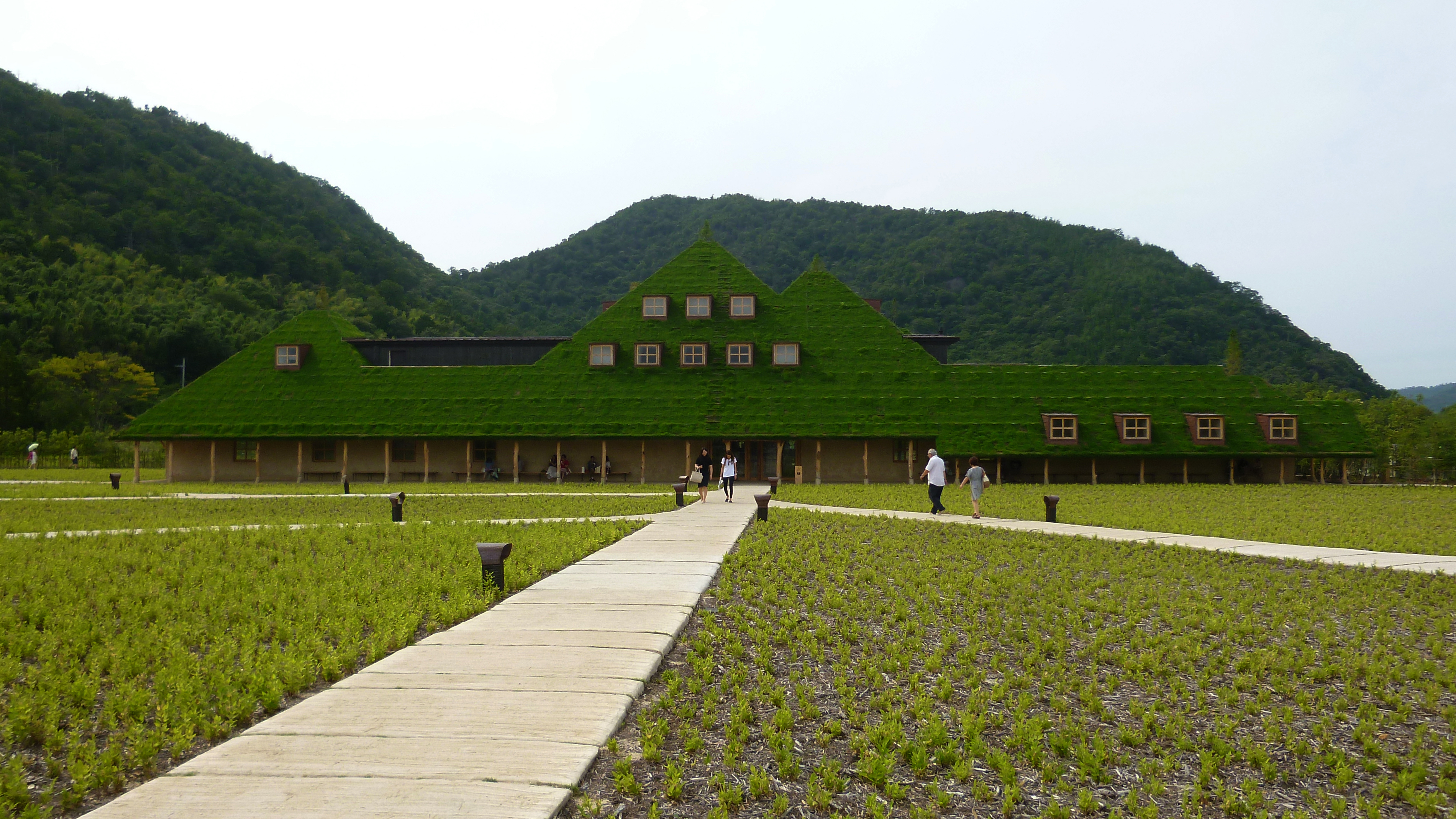 La_Collina_OMIHACHIMAN main shopI took this image at Kita-no-sho, Ōmihachiman, Shiga, Japan.